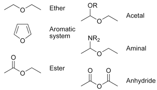 Chemical structure of chemical structures that are not ethers selfmade by cacycle